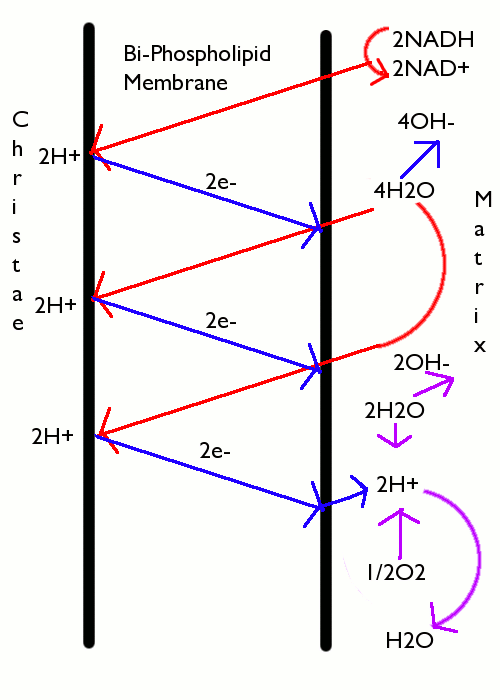 A diagram of chemiosmotic phosphorylation. Author: Adamacious